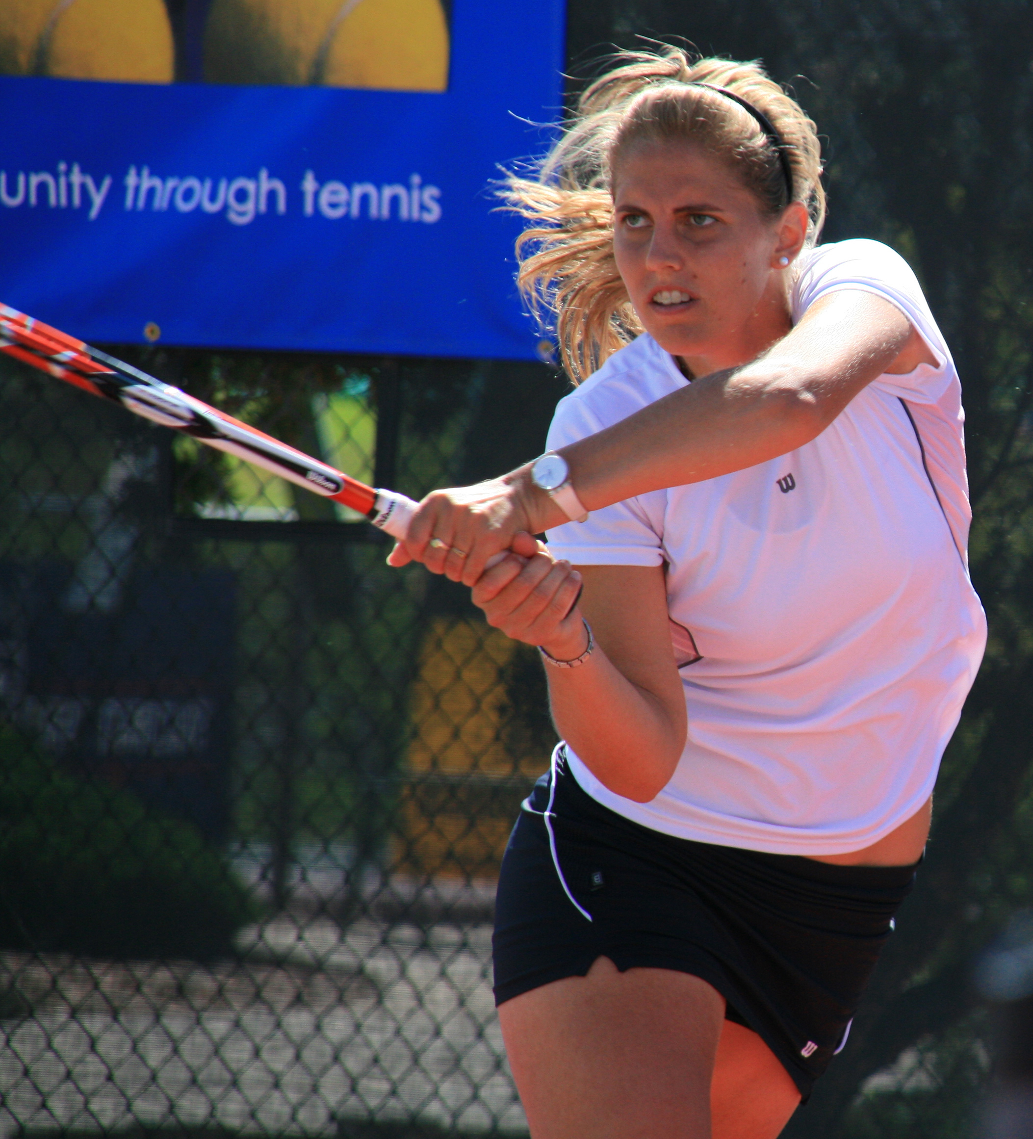 Betina Jozami at the Coleman Vision Tennis Championship in Albuquerque, New Mexico.